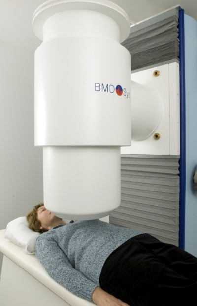 Picture of an MFI System